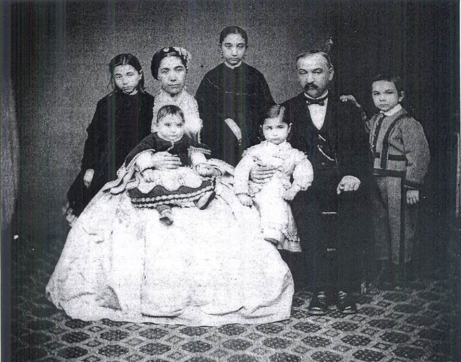 Family of Toma M. Leko (1814-1877) Српски (ћирилица): Породица Томе М. Лека (1814-1877)